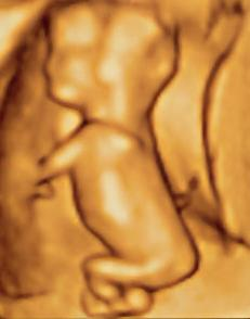 A three-dimensional ultrasound image of a fetus measuring about 3 in (7.6 cm) in length.[1][2]